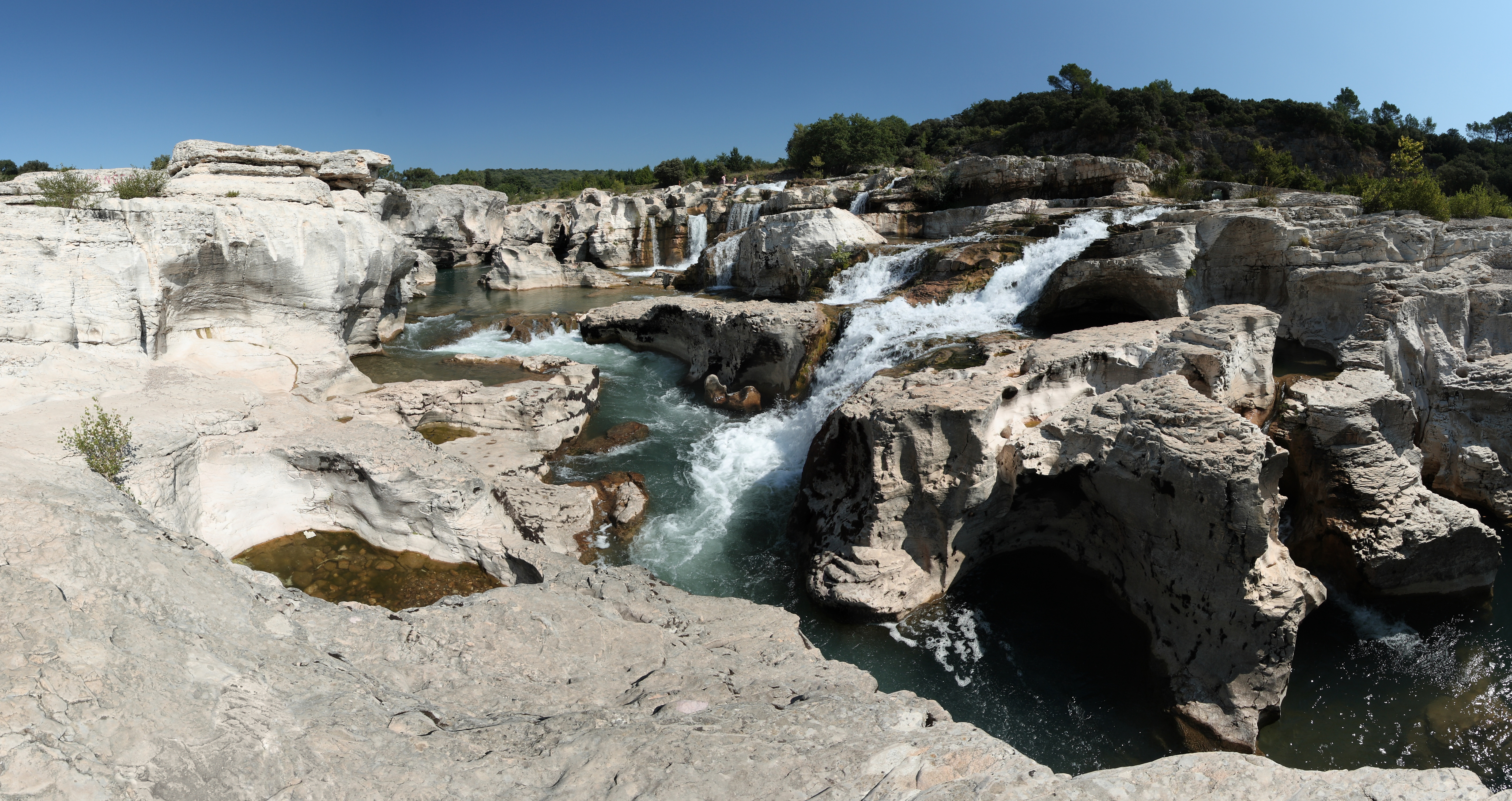 Sautadets Waterfalls on the Cèze river, near Bagnols-sur-Cèze, in the Gard department, south of France